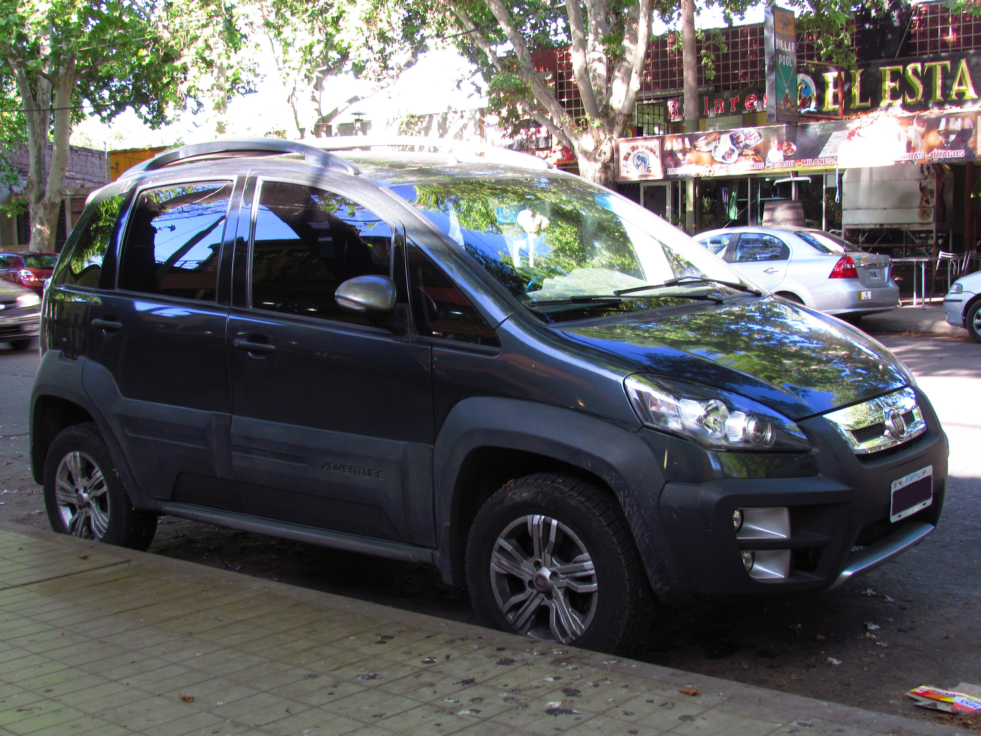 Spotted in Argentina, Mendoza. This one wasn't sold in ChiLe.